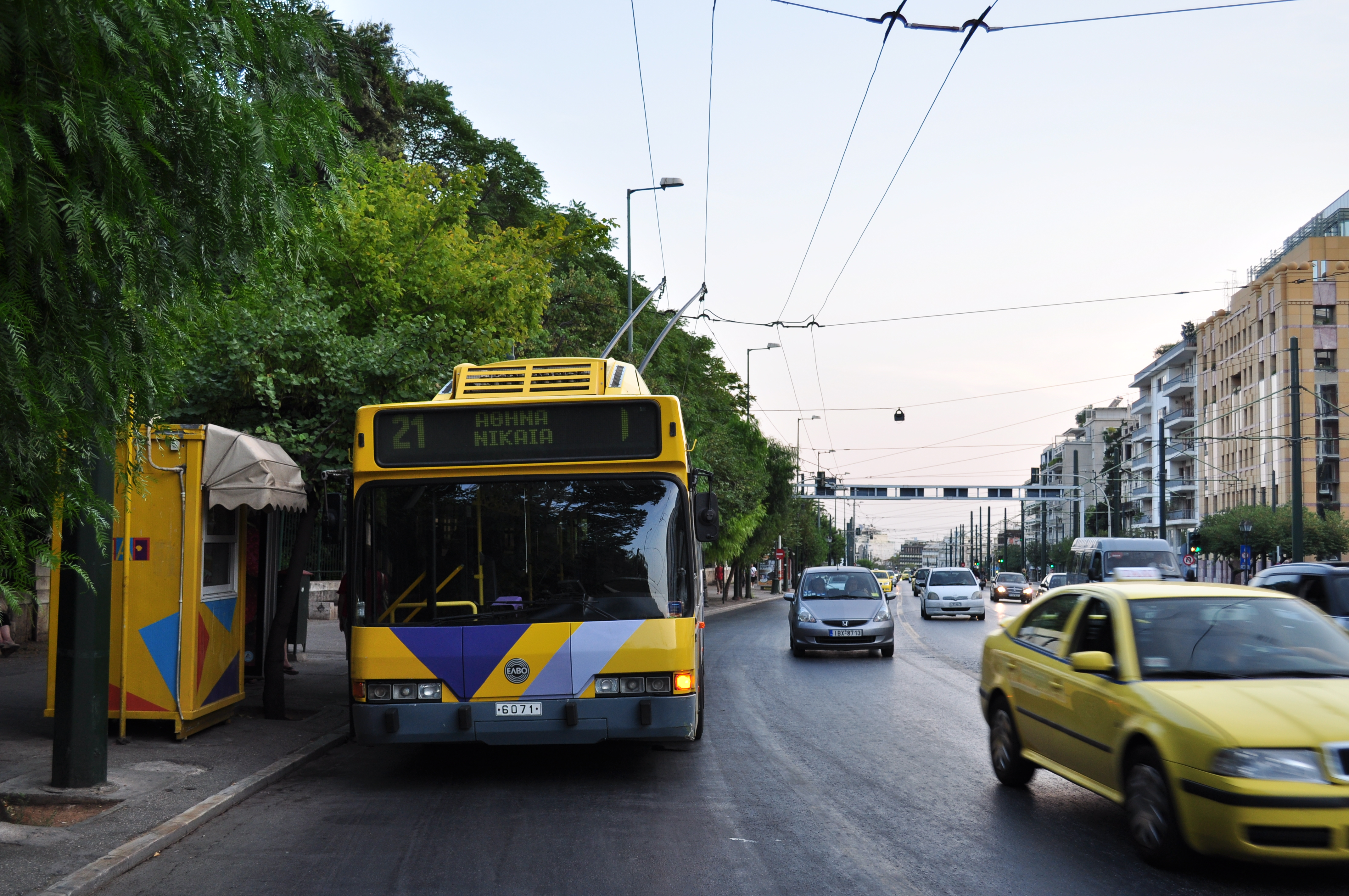 A 6000-series Athens trolleybus (Neoplan model N6014) on Amalias Avenue, on line 21.